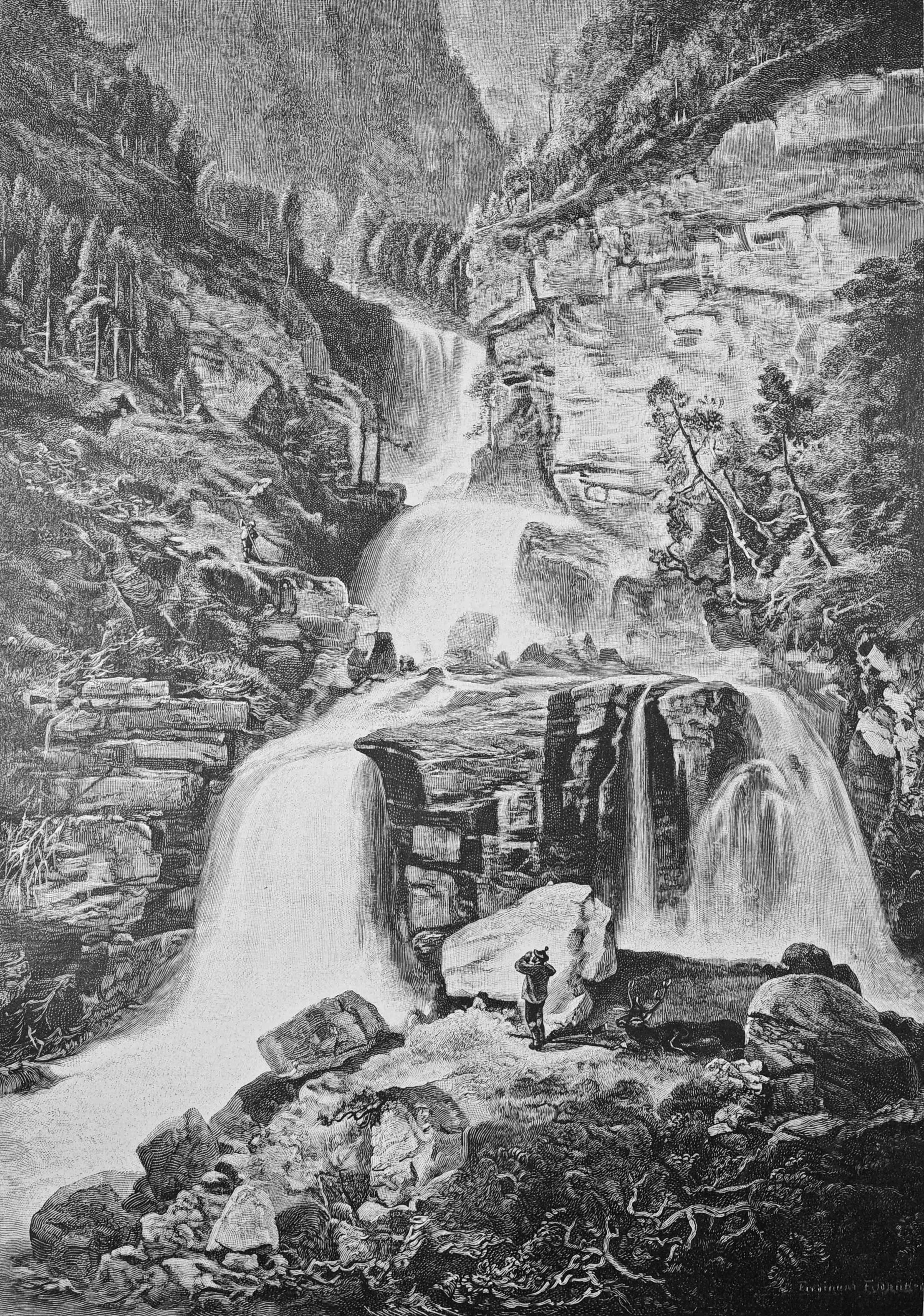 Page 253 from journal Die Gartenlaube for 1897. Extracted image (if any): File:Die Gartenlaube (1897) b 253.jpg - hi res, ~2.5 MB.